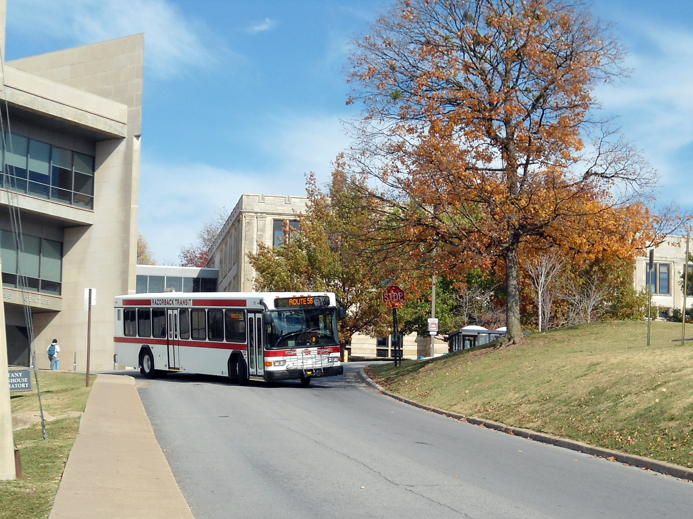 Razorback Transit "Route 56 makes a turn from Dickson Street to Duncan Avenue on the University of Arkansas campus in Fayetteville, Arkansas.